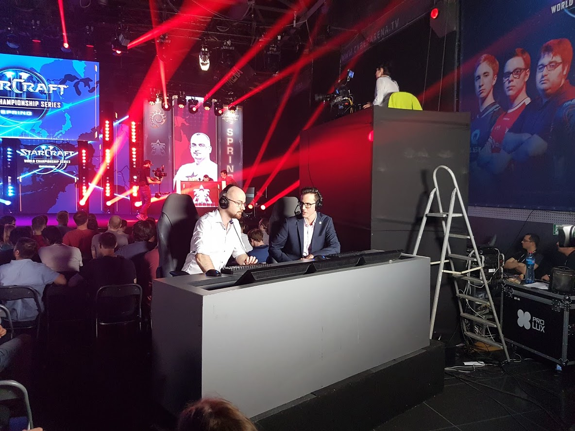 DeMusliM and PiG — English casters at 2019 WCS Spring